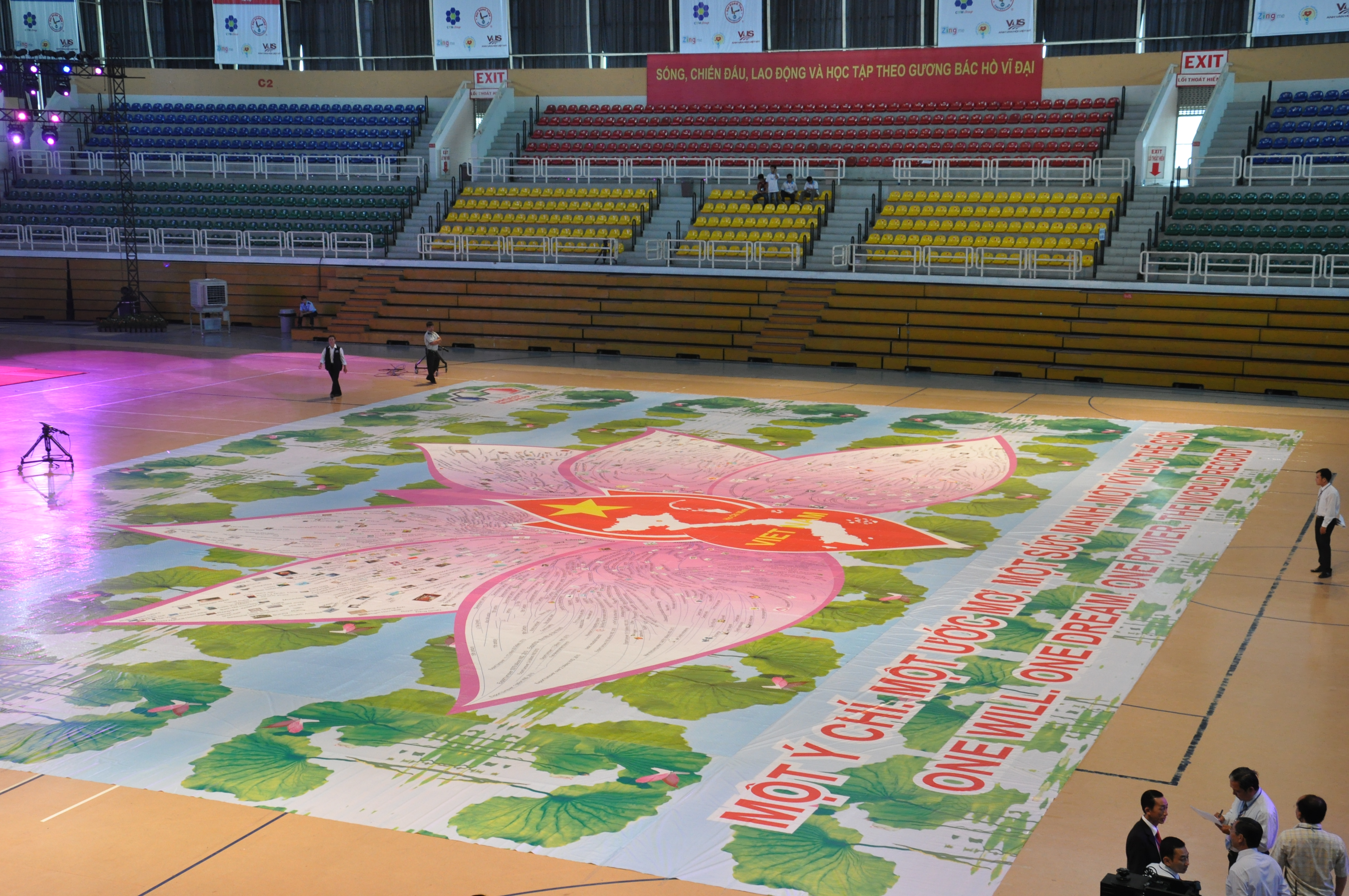 Guinness Record 2011: the largest jigsaw puzzle-most pieces. 551232 pieces. Over 600 square meters.